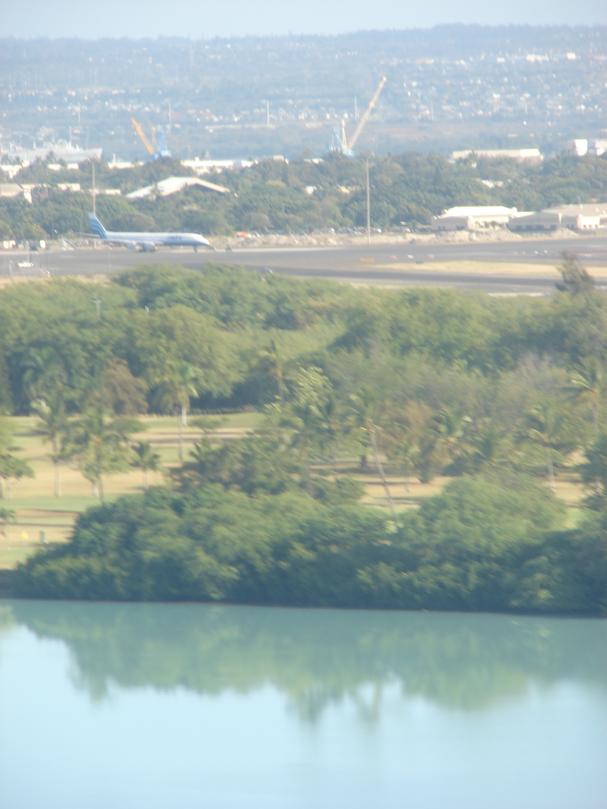 Flaveria trinervia (aerial view of habitat). Location: Oahu, Honolulu